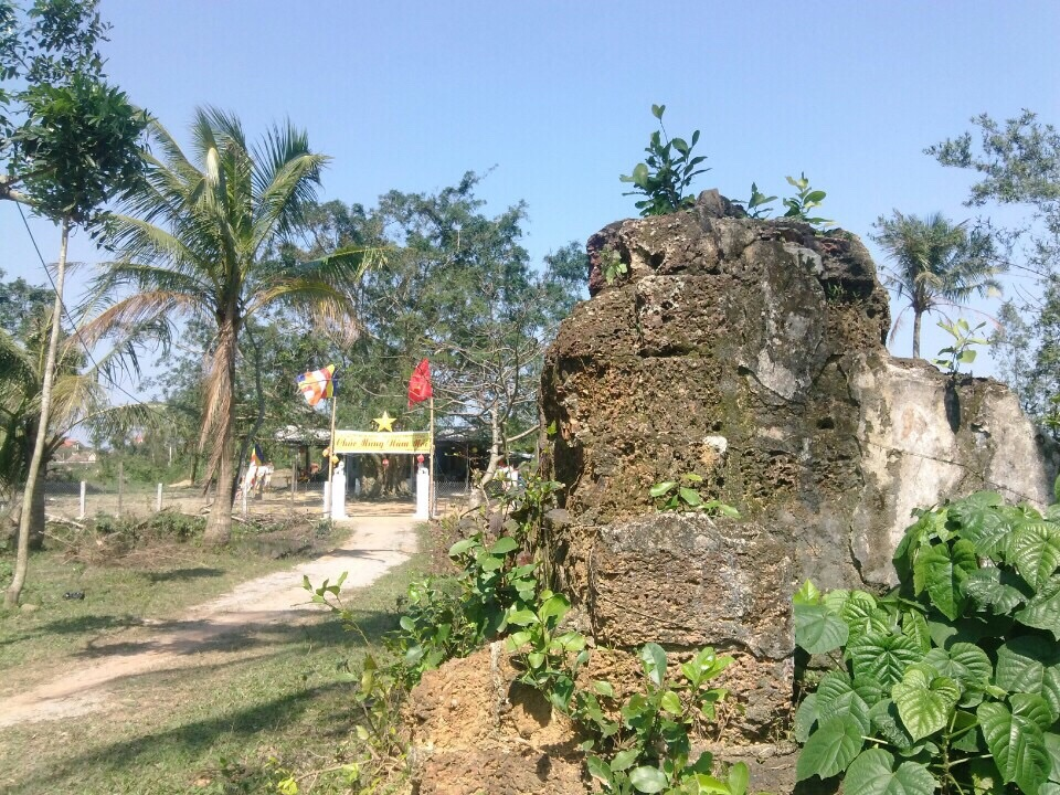 Hoang Phuc Pagoda in Le Thuy District